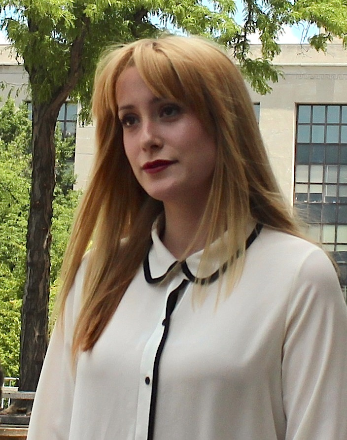 A candid photo of activist Tucker Reed at a protest in Washington, D.C. in 2013.